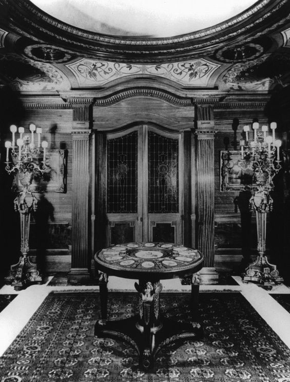 Hall, Chateau Dufresne, Sherbrooke Street, Montreal, QC, about 1930. About 1975, 20th century Silver salts on paper: resin coated - Gelatin silver process 25 x 20 cm Gift of M. Luc d'Iberville-Moreau MP-1978.211.1 McCord Museum